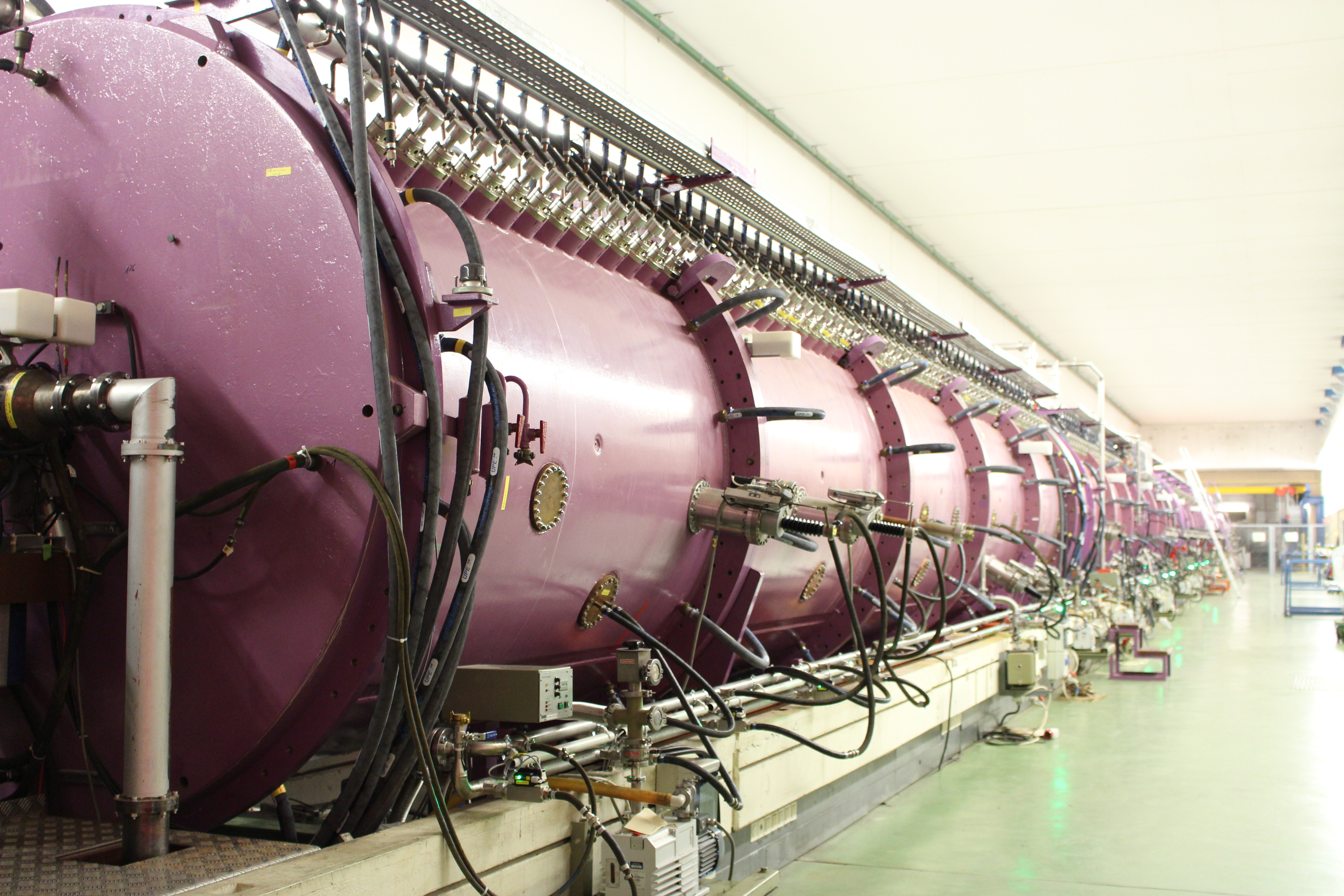 Visit of the GSI Helmholtz Centre for Heavy Ion Research, Darmstadt, Germany.